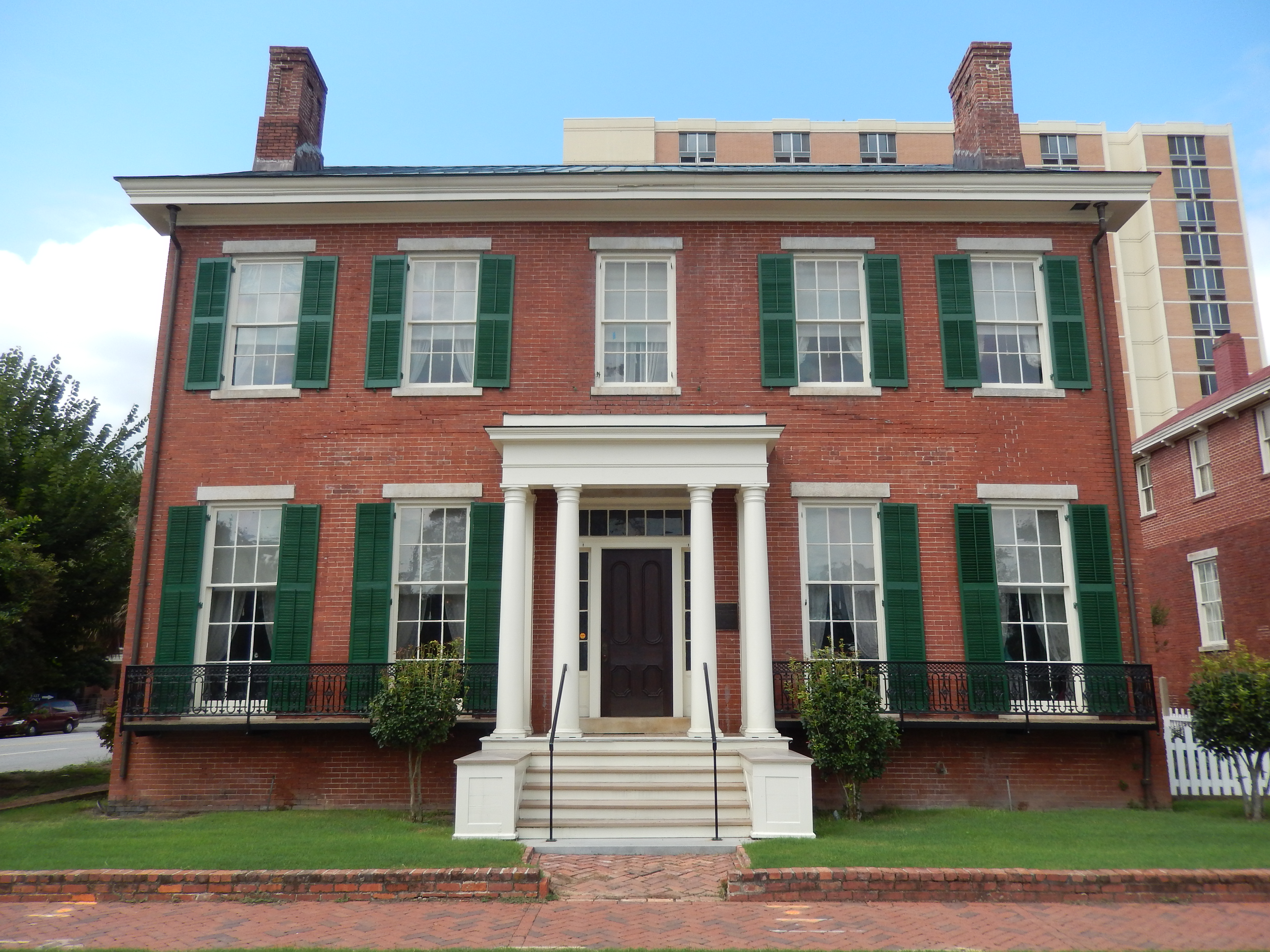 Woodrow Wilson Boyhood Home, 419 7th St. Augusta